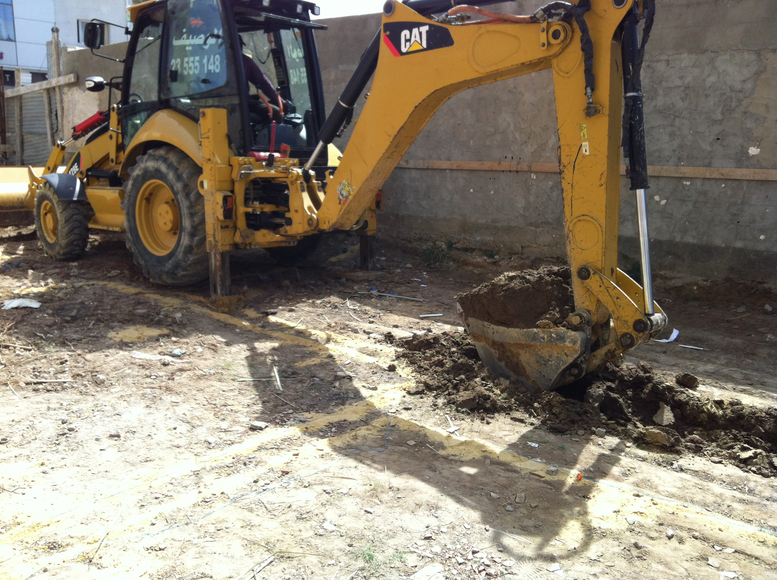 Construction in Tunisia